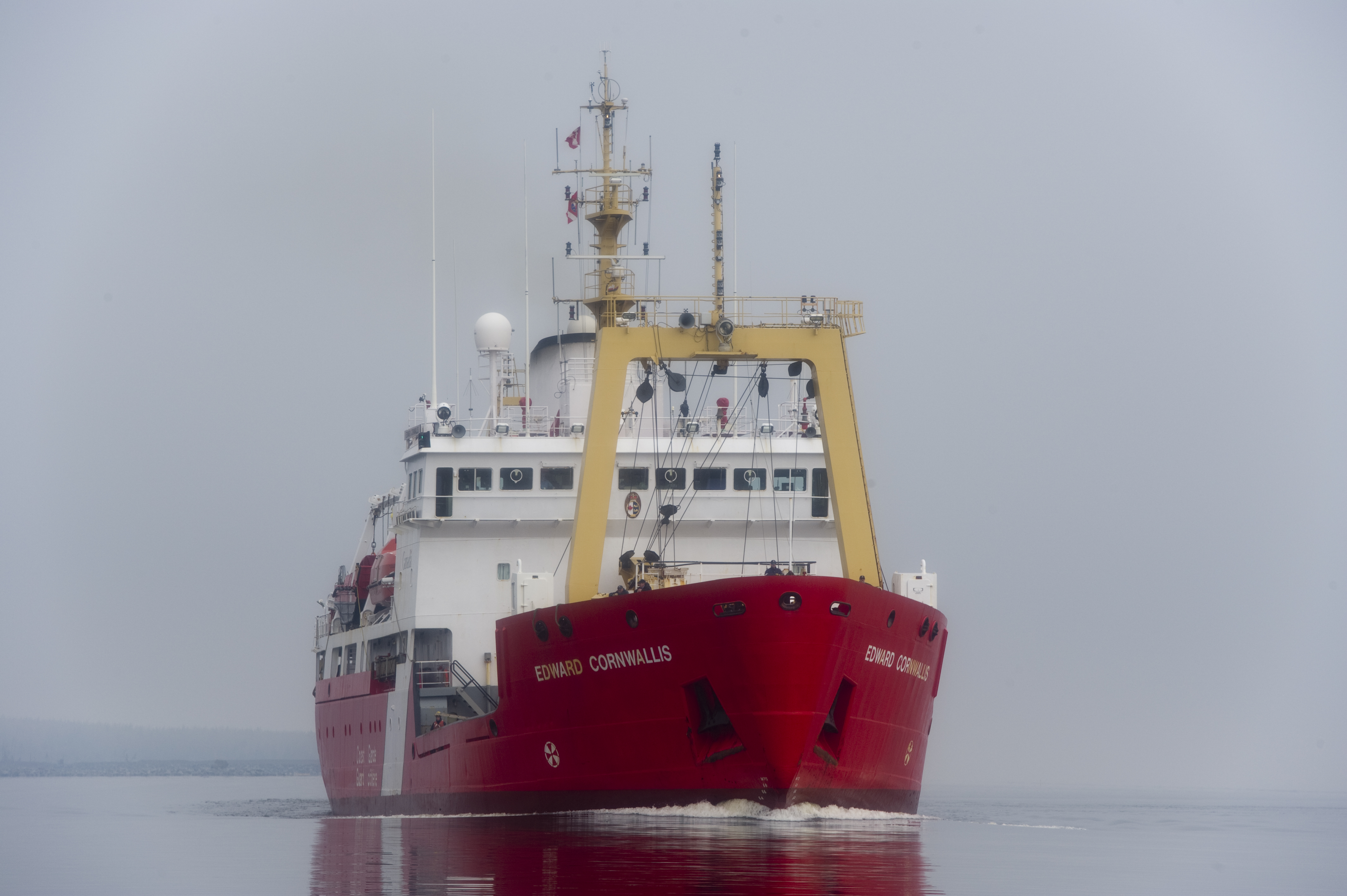 The CCGS Edward Cornwallis steams into Sydney Harbor during Exercise Frontier Sentinel 2012 May 8, 2012 at sea off Sydney, Nova Scotia. Exercise Frontier Sentinel is a combined interagency exercise involving Joint Task Force Atlantic, the U.S. Coast Guard and the U.S. Navy Fleet Forces Command. The exercise is designed to continue to develop and validate the existing plans, treaties and standard operation procedures for a bilateral response to maritime homeland defense and security threats. Read more